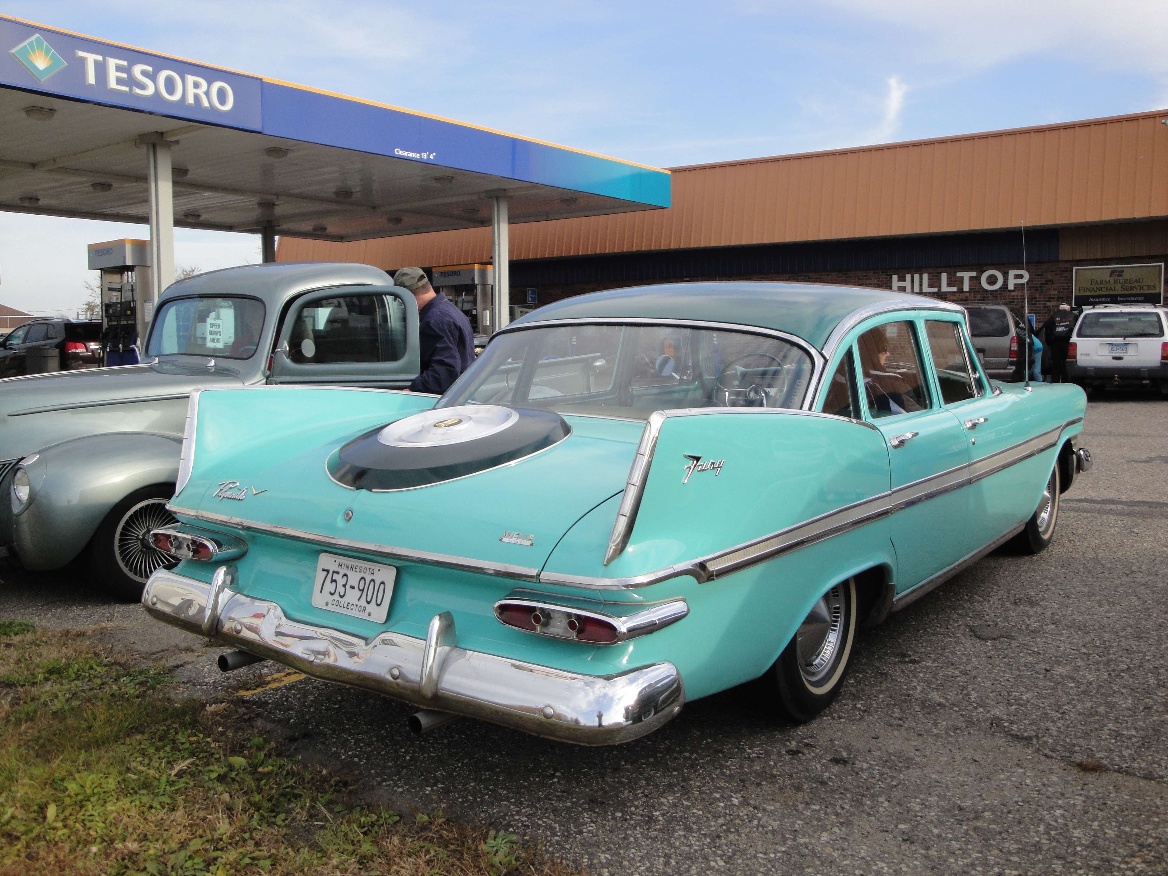 Willmar Car Club Car Buffs' Breakfast November 2011